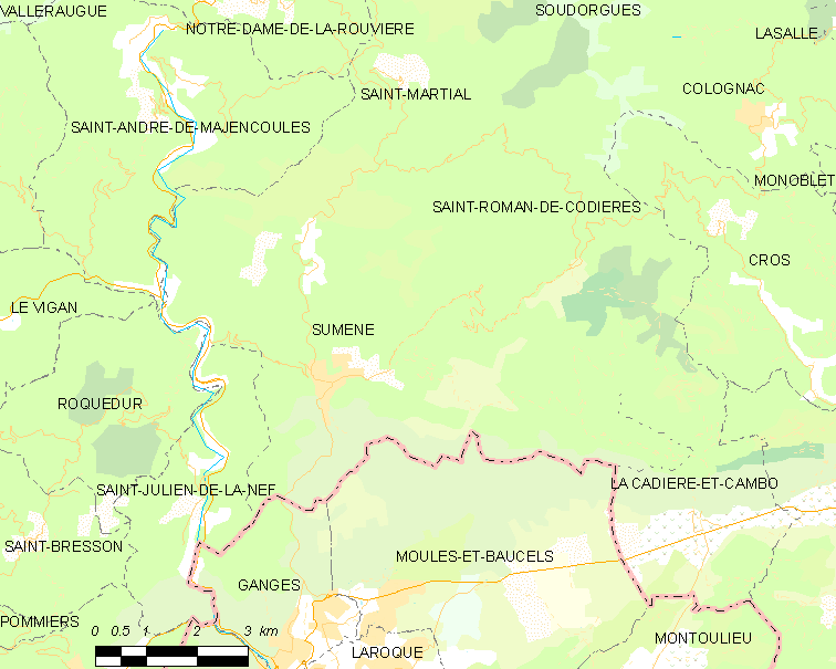 Map commune FR insee code 30325.png - Sumène